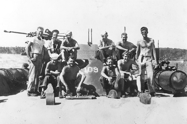 Photo #: 306-ST-649-9, Lieutenant John F. Kennedy, USNR, (standing at right). PT 109 was commanded by Kennedy with one executive officer and 10 enlisted men on the night it was struck by the Japanese destroyer: Crew: Lt. John F. Kennedy, Ensign Leonard Jay Thom, Ensign George H. R. Ross, S1/c Raymond Albert, RM2/c John E. Maguire, QM3/c Edman Edgar Mauer, GM3/c Charles A. Harris, MoMM1/c Patrick Henry McMahon, MoMM2/c William Johnston, TM2/c Ray L. Starkey, MoMM1/c Gerald E. Zinser , MoMM2/c William Johnston, TM2/c Ray L. Starkey, and MoMM1/c Gerald E. Zinser